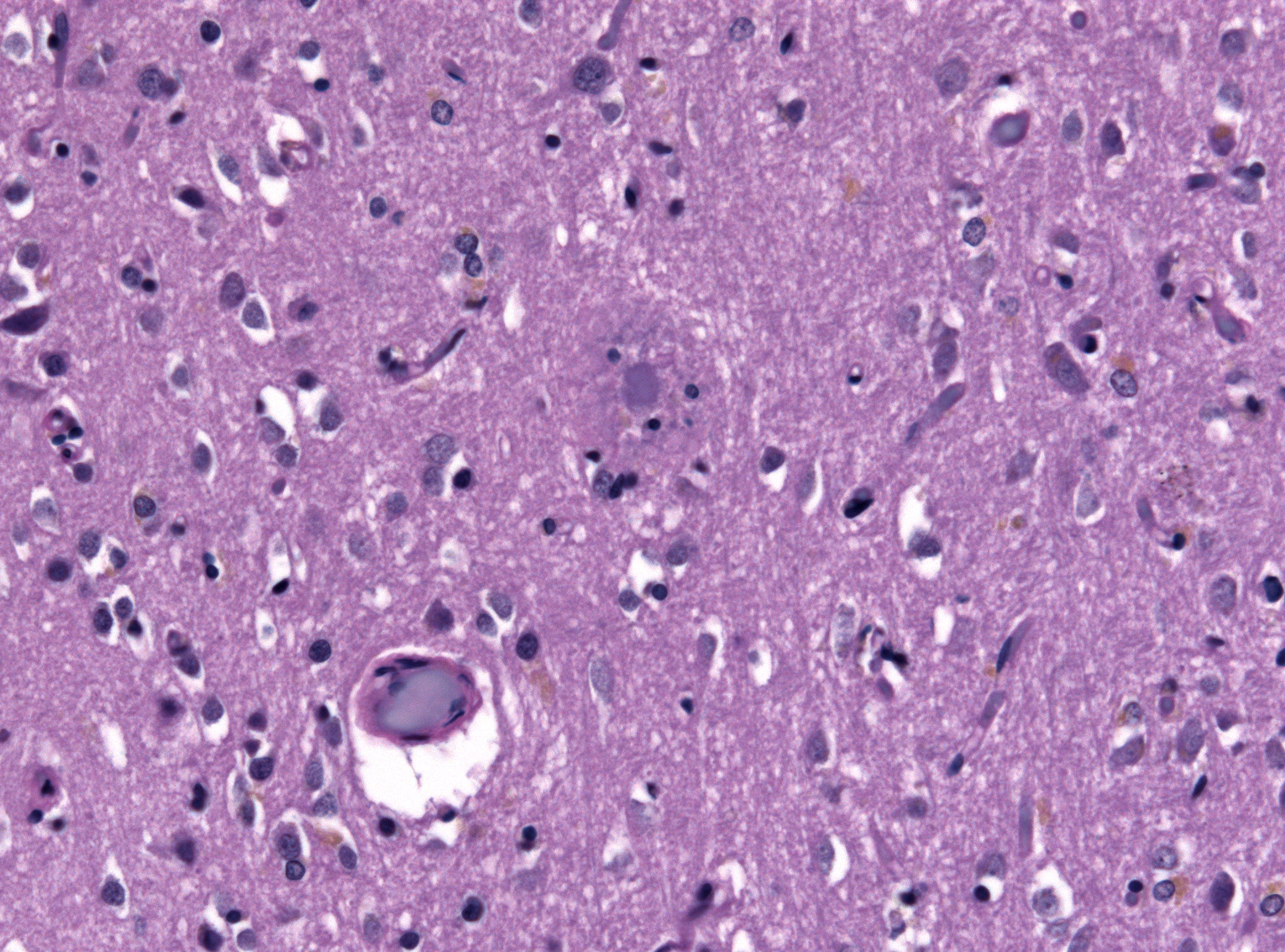 Biopsy specimen displaying a neuritic plaque in a case of Alzheimers Disease